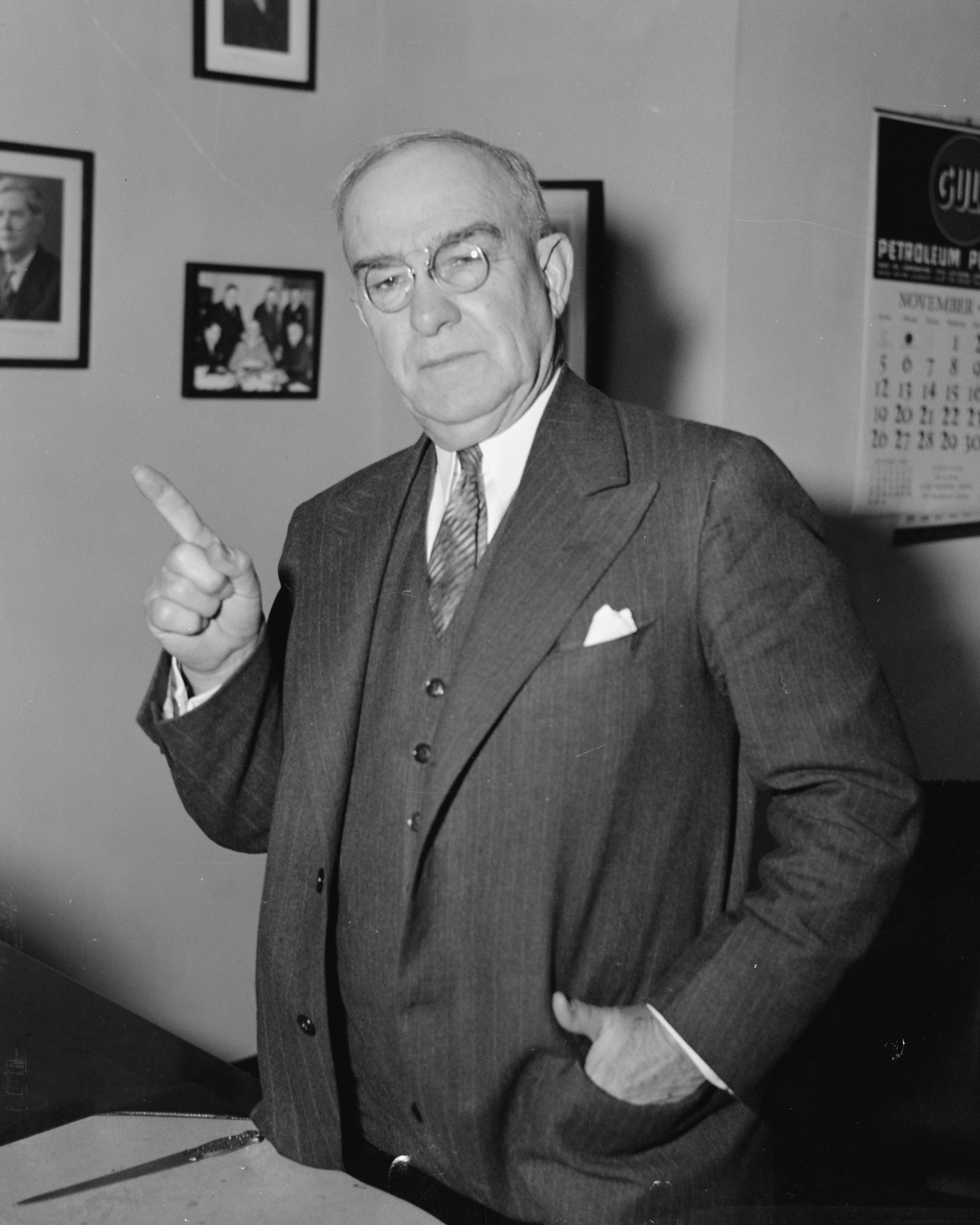 Title: Alabama Democrat. Washington, D.C., Nov. 7. A new informal picture of Rep. Luther Johnson, democrat [...] Alabama Abstract/medium: 1 negative : glass ; 4 x 5 in. or smaller